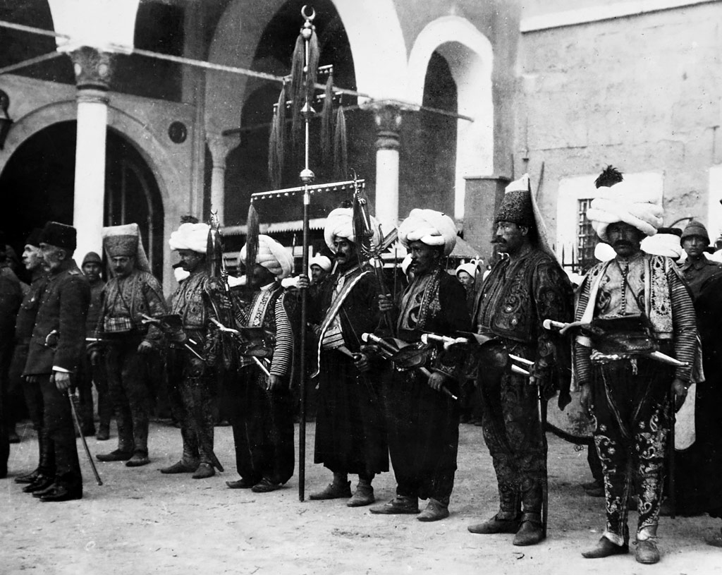 Receiption of the commander in chief of the Bulgarian army, General Nikola Zhekov in Tsarigrad (Istanbul), 1917 janissaries Chapel